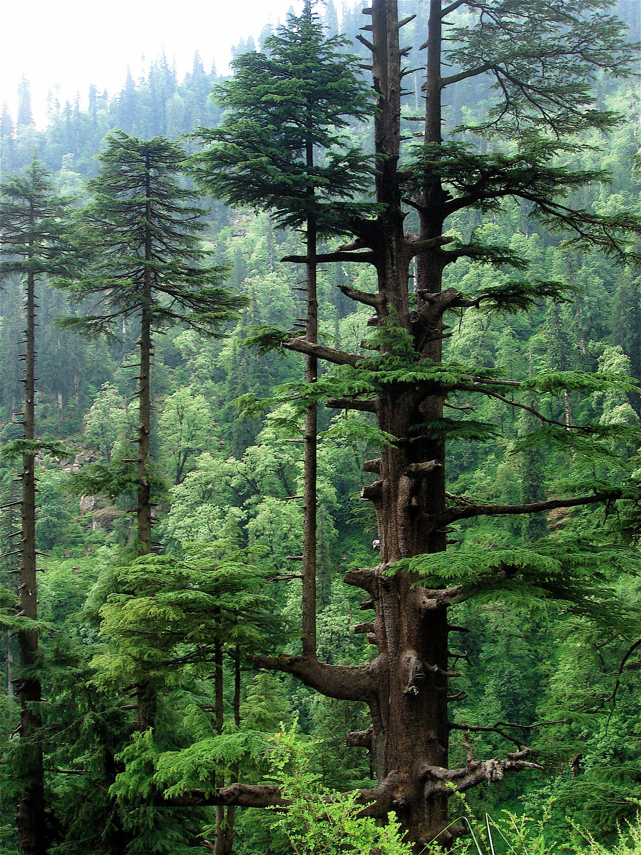 Old Cedrus deodara, Manali Wildlife Sanctuary, Himachal Pradesh, India; 2500m altitude.